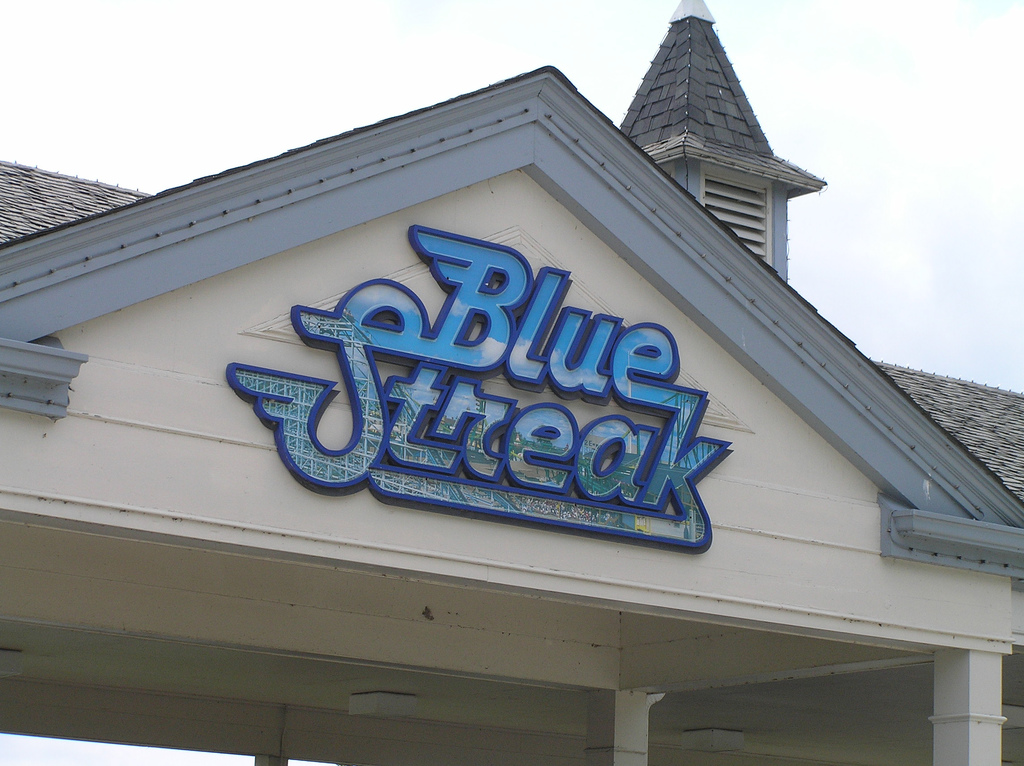 Blue Streak's sign at Cedar Point